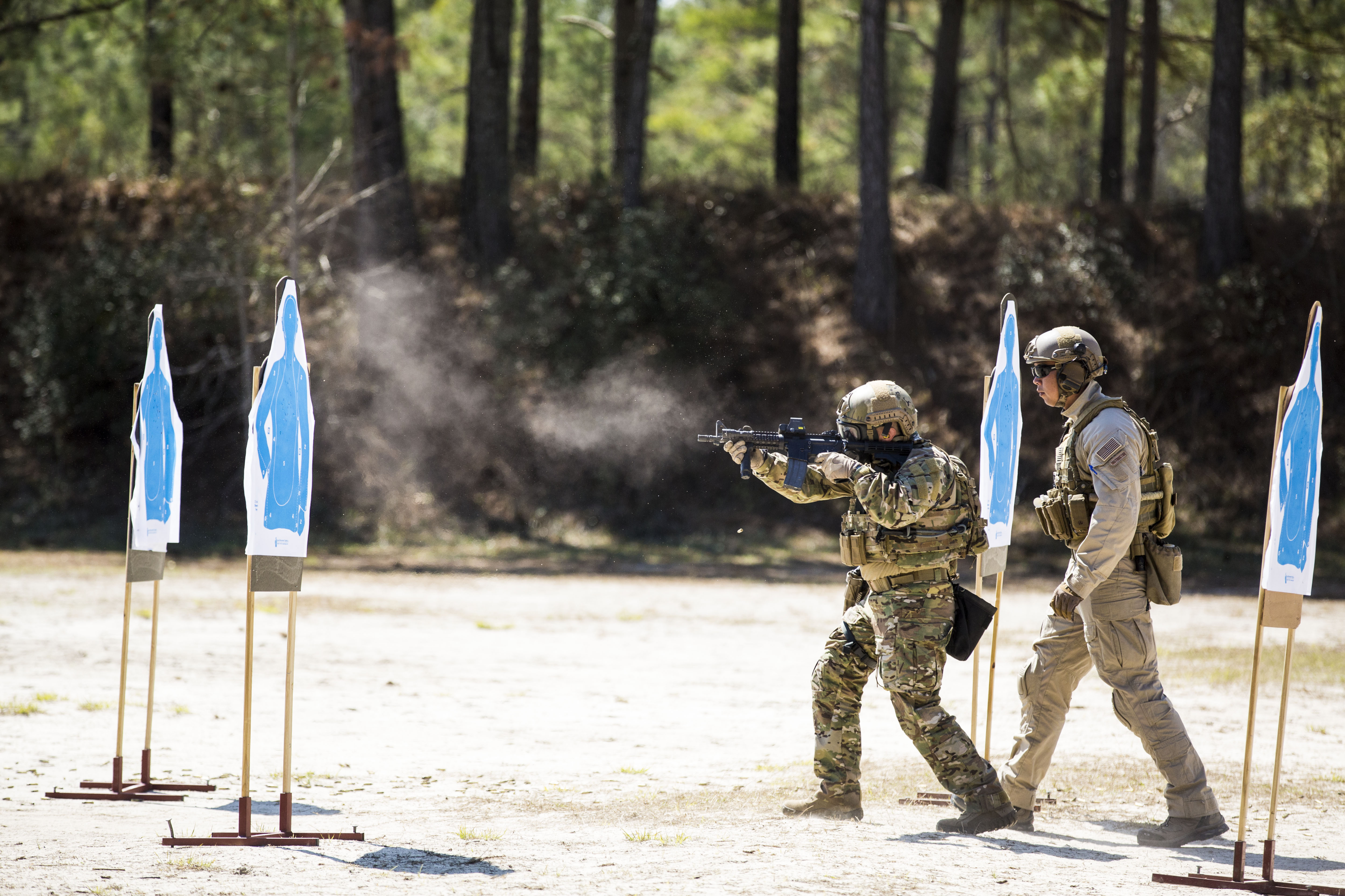 A Deployable Specialized Forces U.S. Coastguardsman fires an Mk18 rifle while an instructor supervises during the Advanced Tactical Operations Course aboard Camp Lejeune, N.C., April 2, 2015. Experienced operators and civilian contractors were utilized during the Basic and Advanced Tactical Operations Courses as instructors, ensuring skills that could be needed in real world situations are taught and understood. (U.S. Marine Corps photo by Cpl. Shawn Valosin/released) Unit: II Marine Expeditionary Force